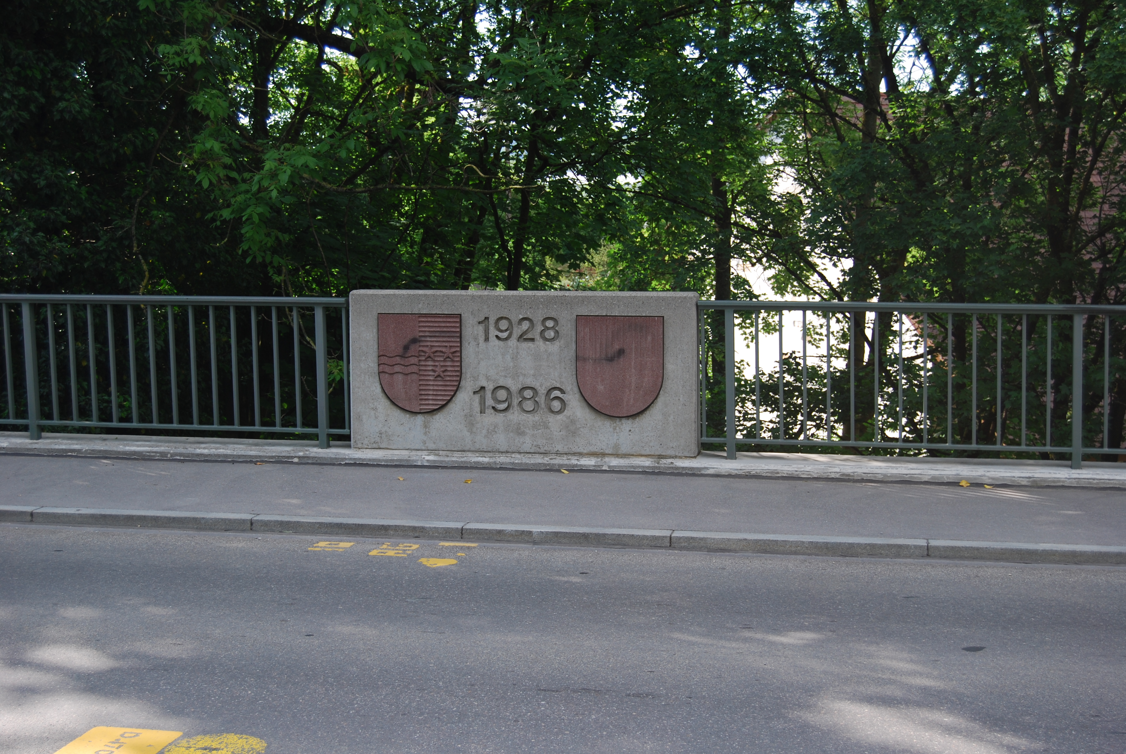 Bridge between Erlinsbach, canton of Aargau, and Erlinsbach, canton of Solothurn, Switzerland